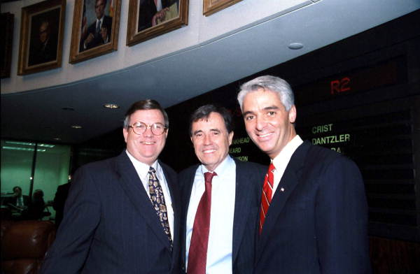 Group portrait of Florida State Senators John Grant, Louis de la Parte and Charlie Crist during the 1996 Legislative Session - Tallahassee, Florida